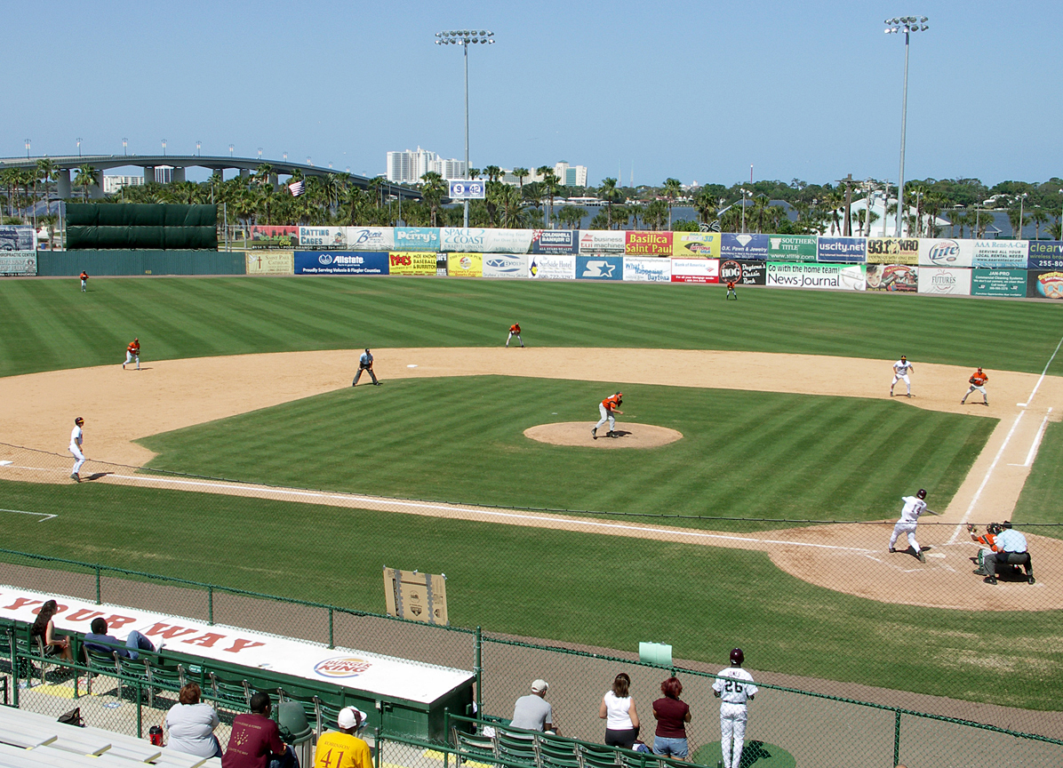 Jackie Robinson Stadium in Daytona Beach, FL, USA. Bethune-Cookman University vs. Florida A&M University.